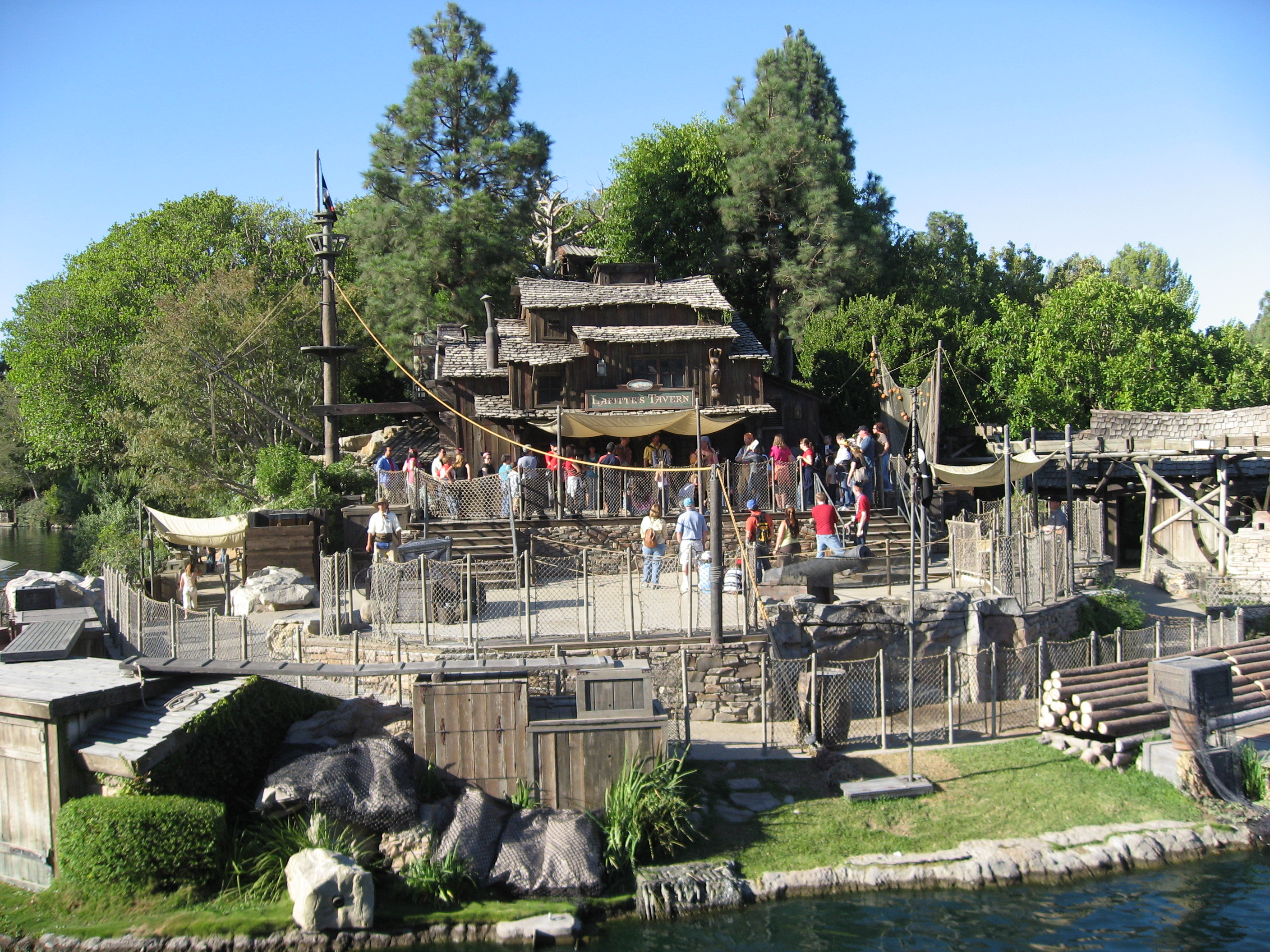 Tom Sawyer Island at Disneyland.